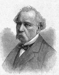 William Henry Trescot (1823-1887) was a Charleston attorney who rose to serve as Assistant Secretary of State under Buchanan during the six months prior to secession